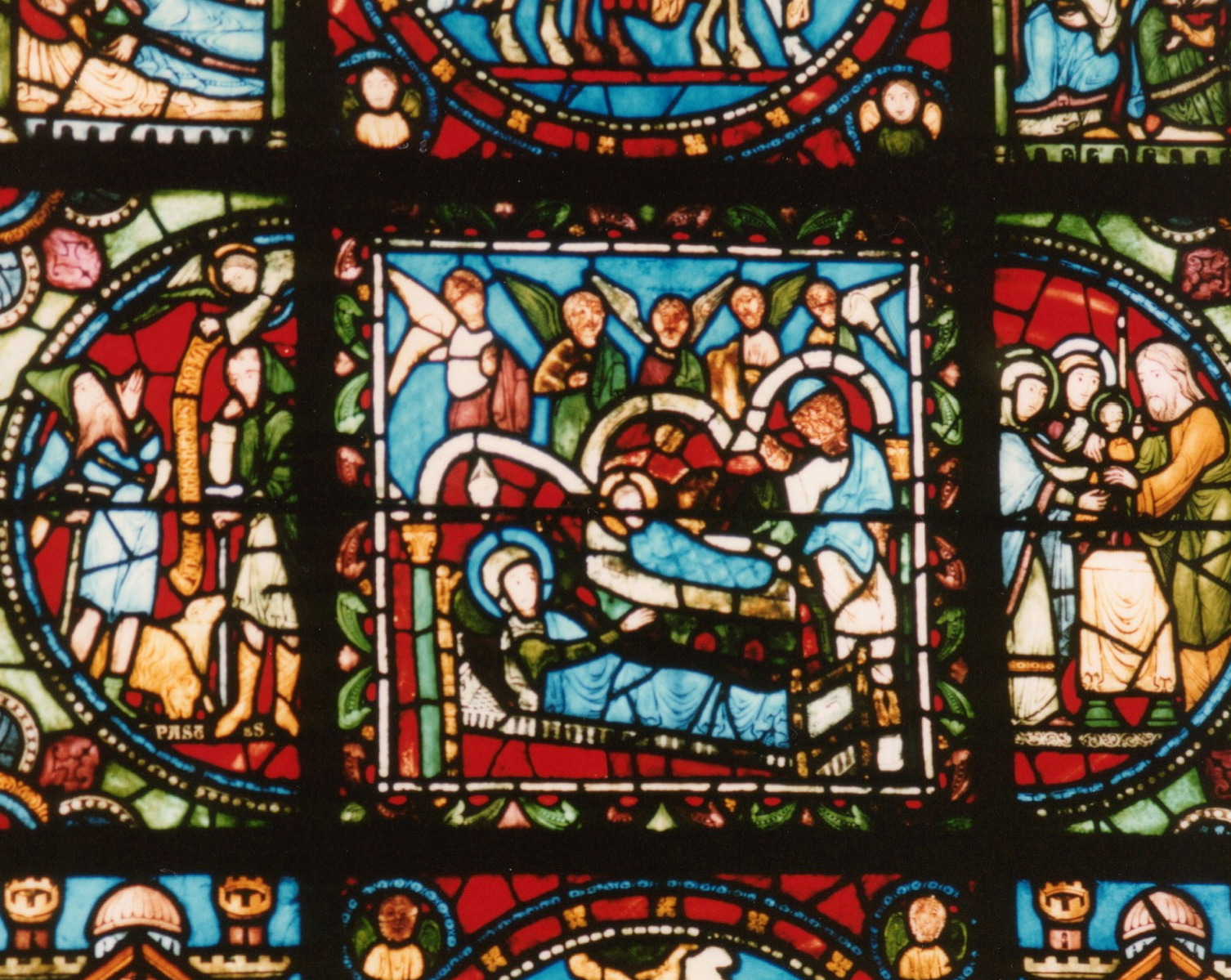 The nativity depicted as part of the 12th-c. Life of Christ window in the Basilica of St. Denis, Paris.